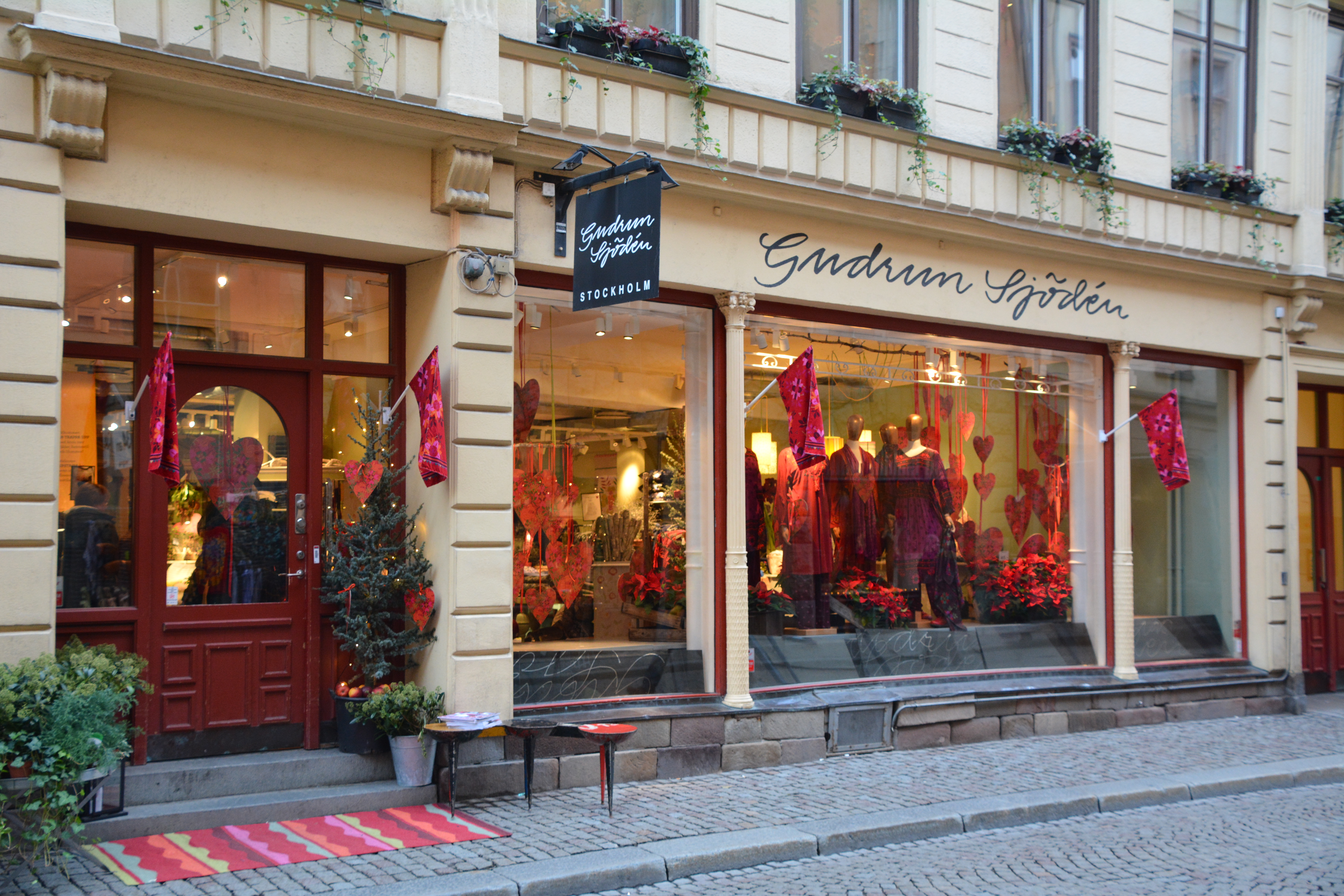 Gudrun Sjödén shop at Stora Nygatan 33 in Stockholm, Sweden